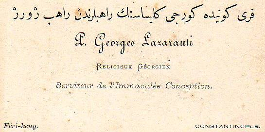 Visiting card of Georges Lazarauli. He was one of the priests of Georgian Catholic Church in Constantinople. First line is Ottoman Turkish, that writes: "Feriköyünde Gürcü Kilisesinin rahiplerinden rahip Jorj" meaning "Priest George, one of the priests of Georgian Church in Feriköy".